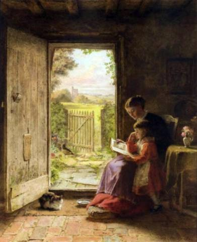 "The Reading Lesson" - Oil on Panel - 38 x 33.5 cm.